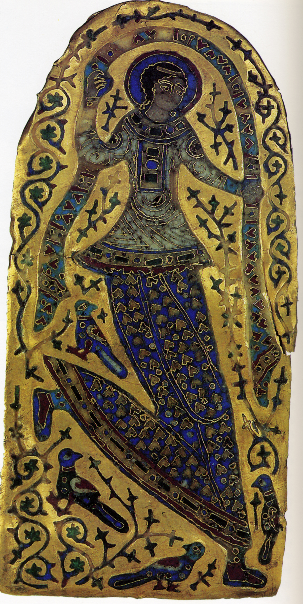 Crown of the imperator Constantin IX Monomachos 1042-1050. National Museum, Budapest (left part)